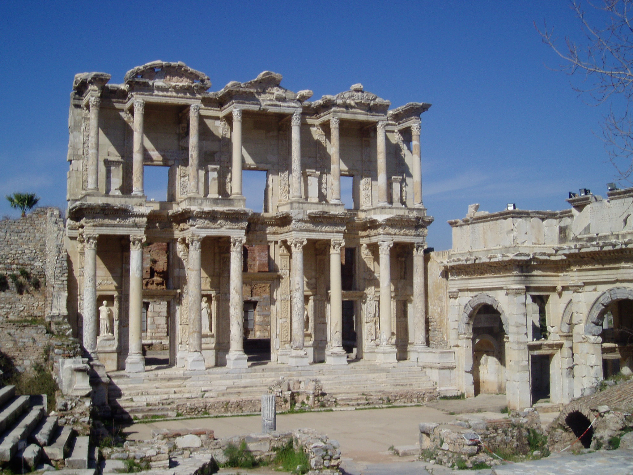 Celsus Library in Ephesos, Turkey